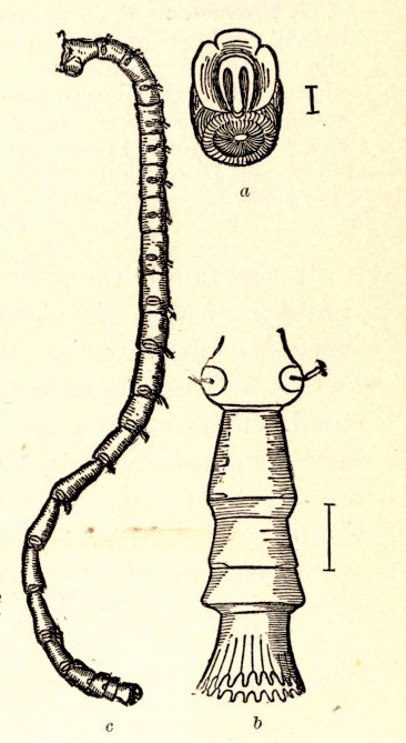 Clymenella torquata Subject: Capitelli9da Tag: Invertebrates